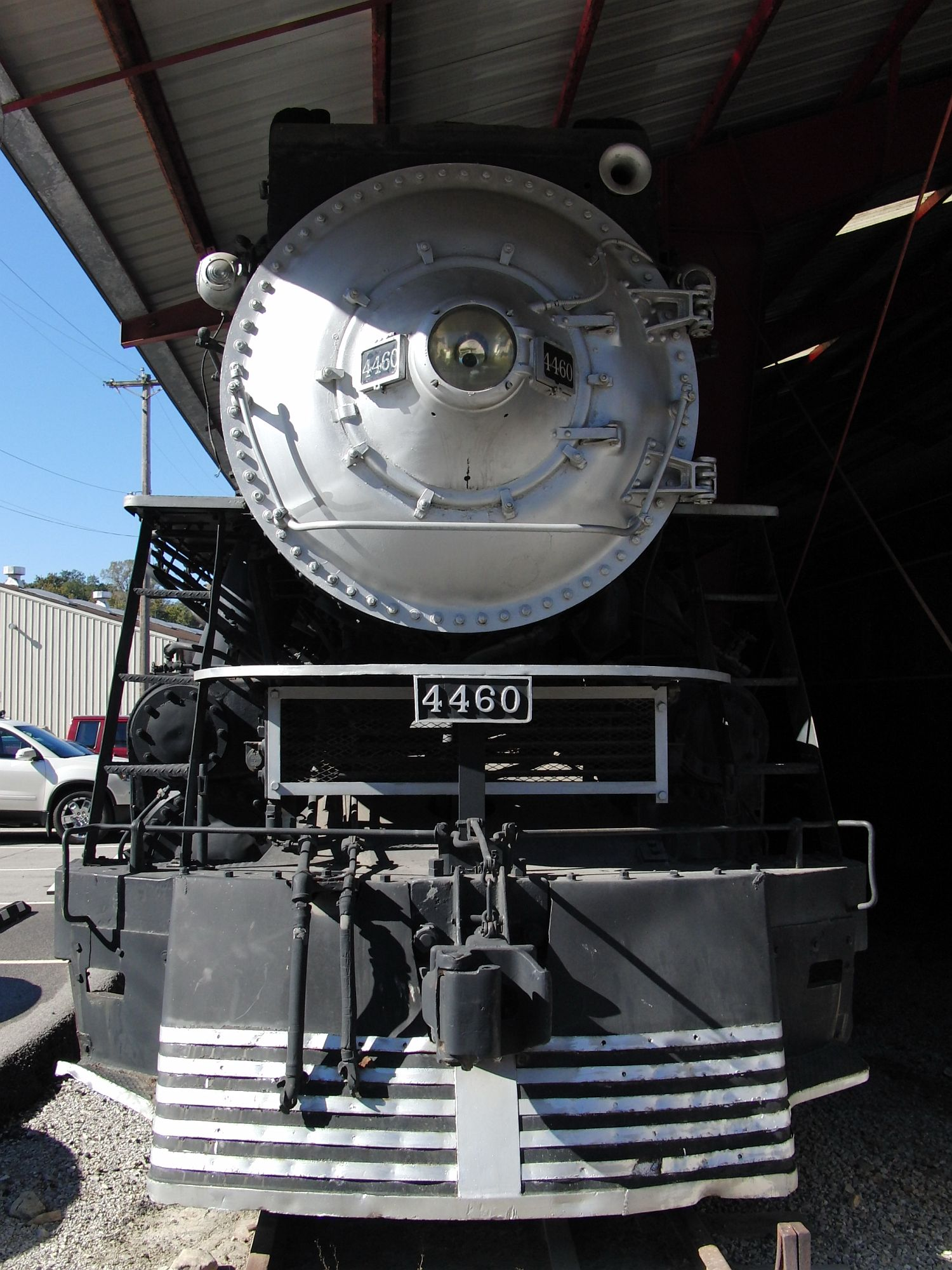 Southern Pacific 4460 at the Museum of Transportation.